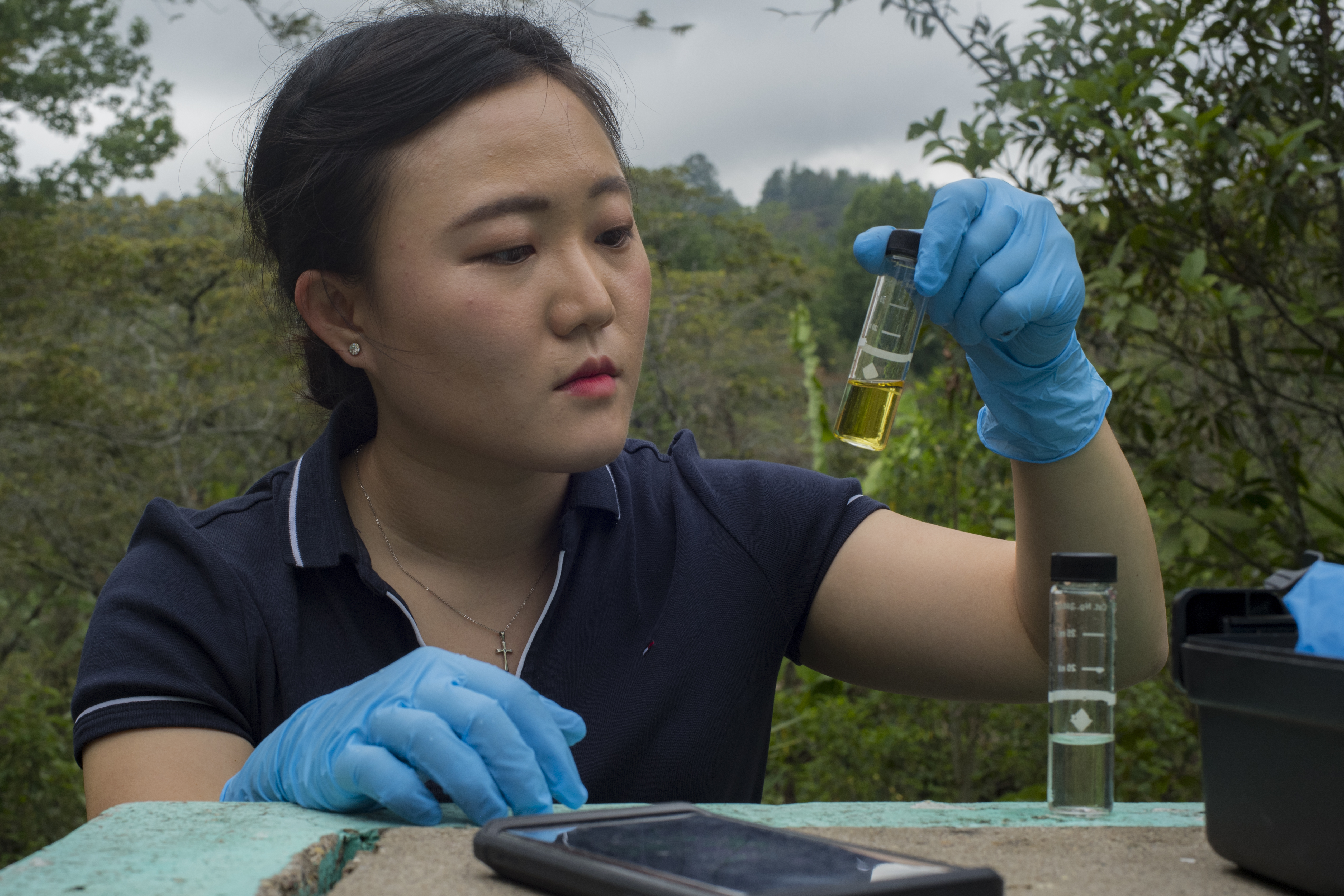 U.S. Army Spc. Young Wong Ham, Joint Task Force – Bravo Medical Element public health specialist, checks the chlorine level of the local water source during a Pediatric Medical Readiness Training Exercise May 23, 2019 in La Paz, Honduras. MEDRET missions allow JTF-B medical personnel to train in their areas of expertise, while providing a service and strengthening partnership with the host nation. The service members saw approximately 120 patients during the mission. (U.S. Air Force photo by Staff Sgt. Eric Summers Jr.)